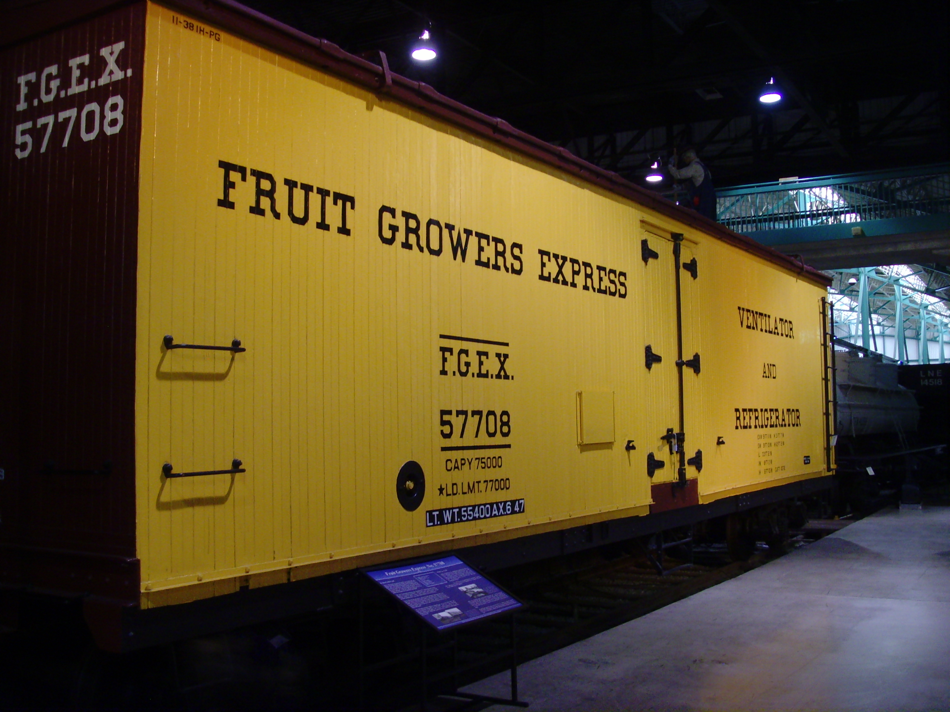 0359 Strasburg - Railroad Museum of Pennsylvania